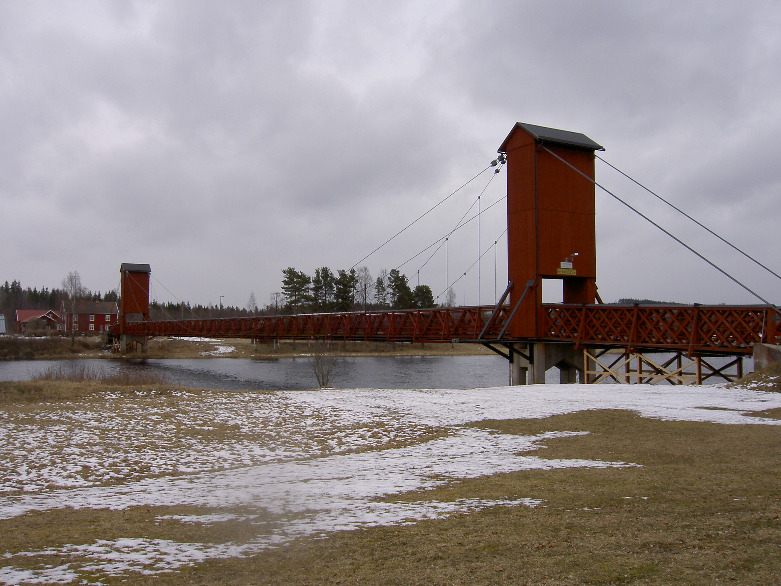 Dala-Flodas träbro/Wooden bridge of Dala-Floda, Sweden